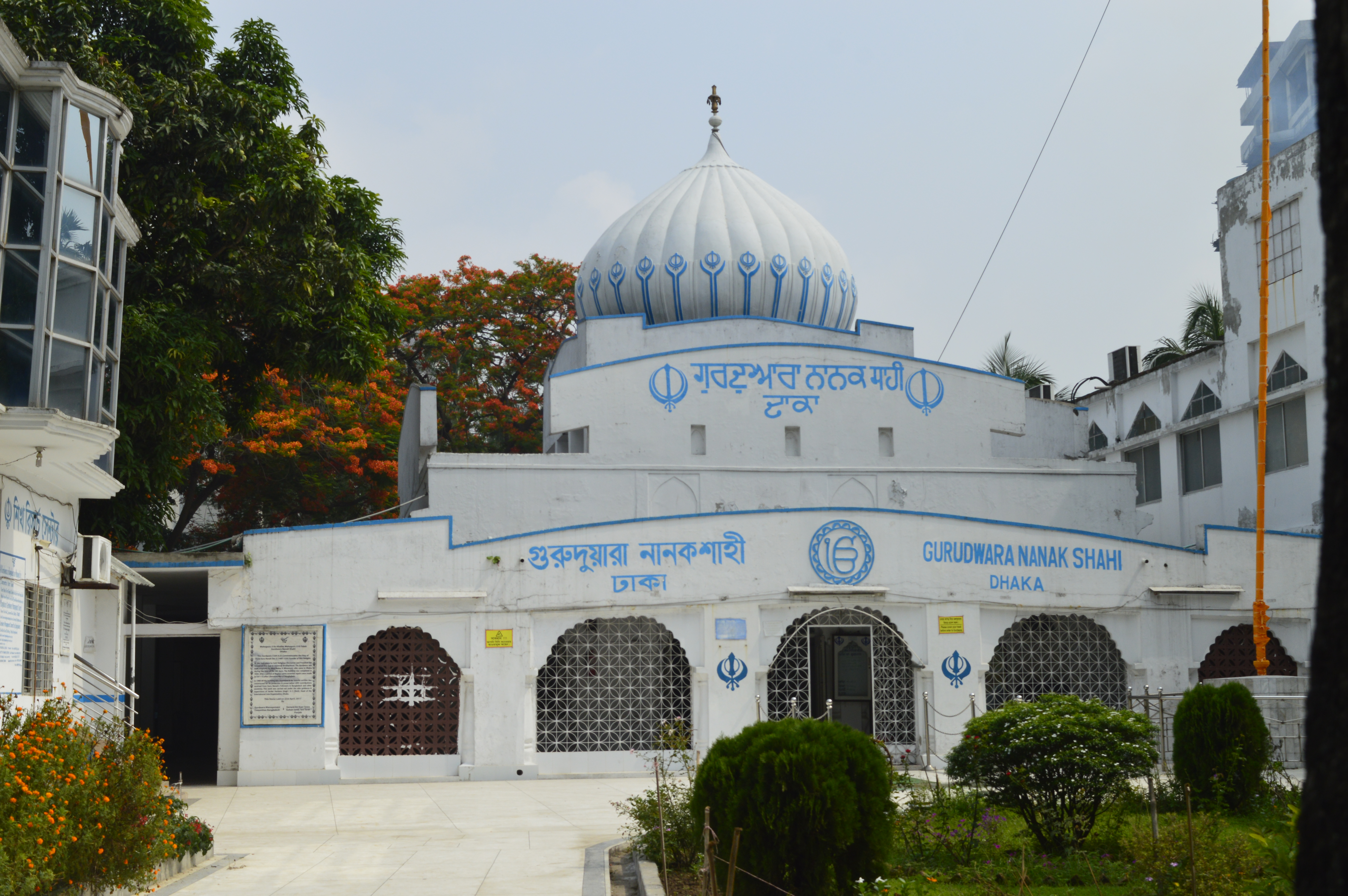 Being the only Shikh prayer house, this milk-white structure with calm and serene ambiance, is one of the greatest attractions in the Dhaka university premise.